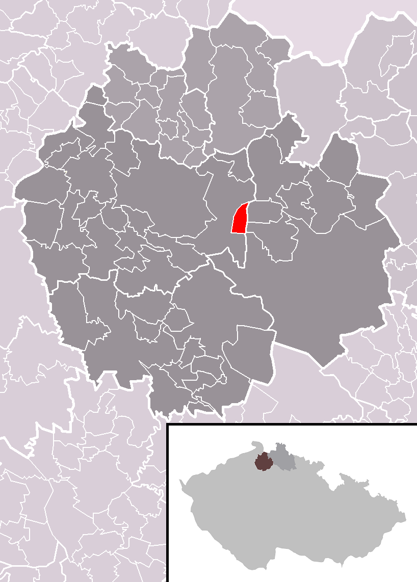 Location of Bohatice municipality within Česká Lípa District and administrative area of Česká Lípa as a Municipality with Extended Competence.